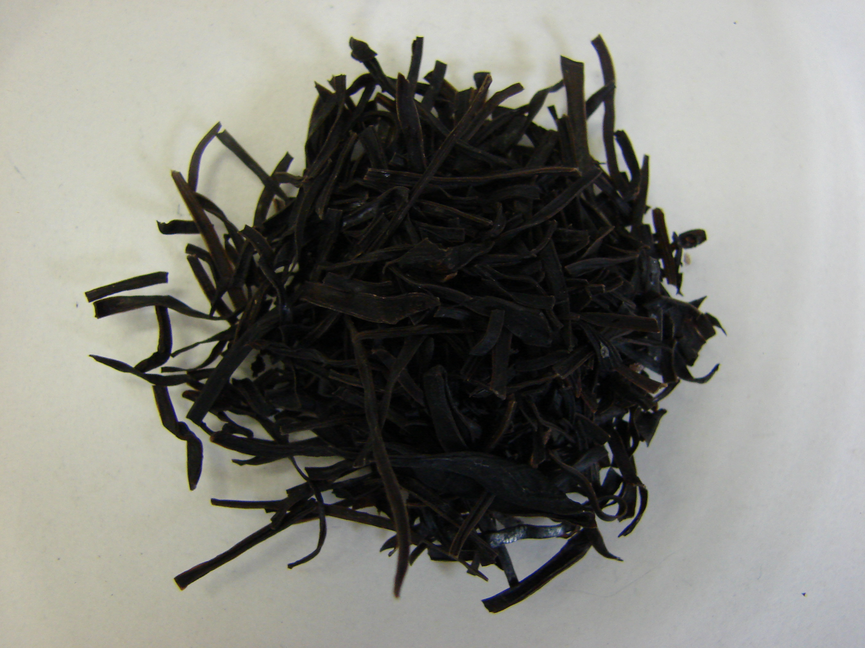 Arame, Eisenia bicyclis